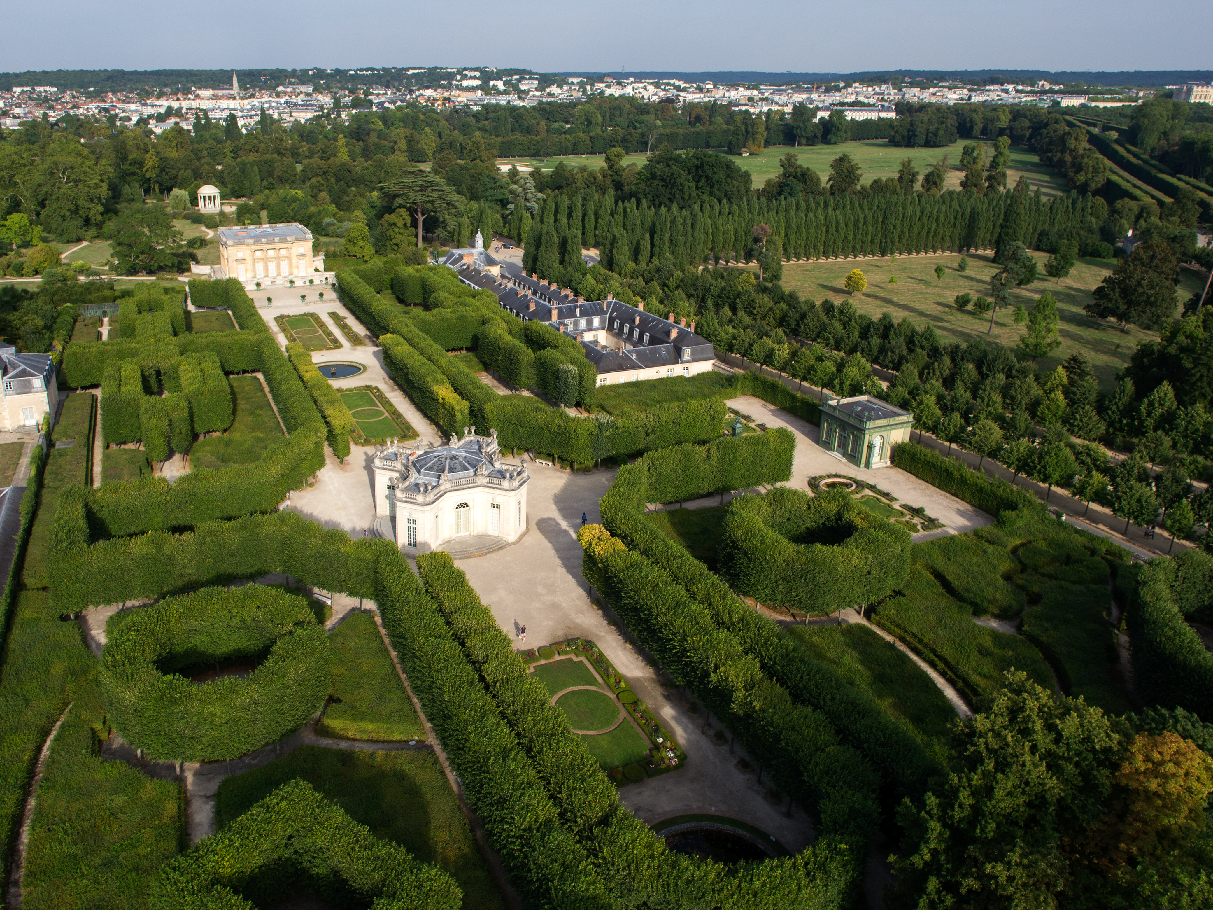 Aerial view of the Petit Trianon, Domain of Versailles, France